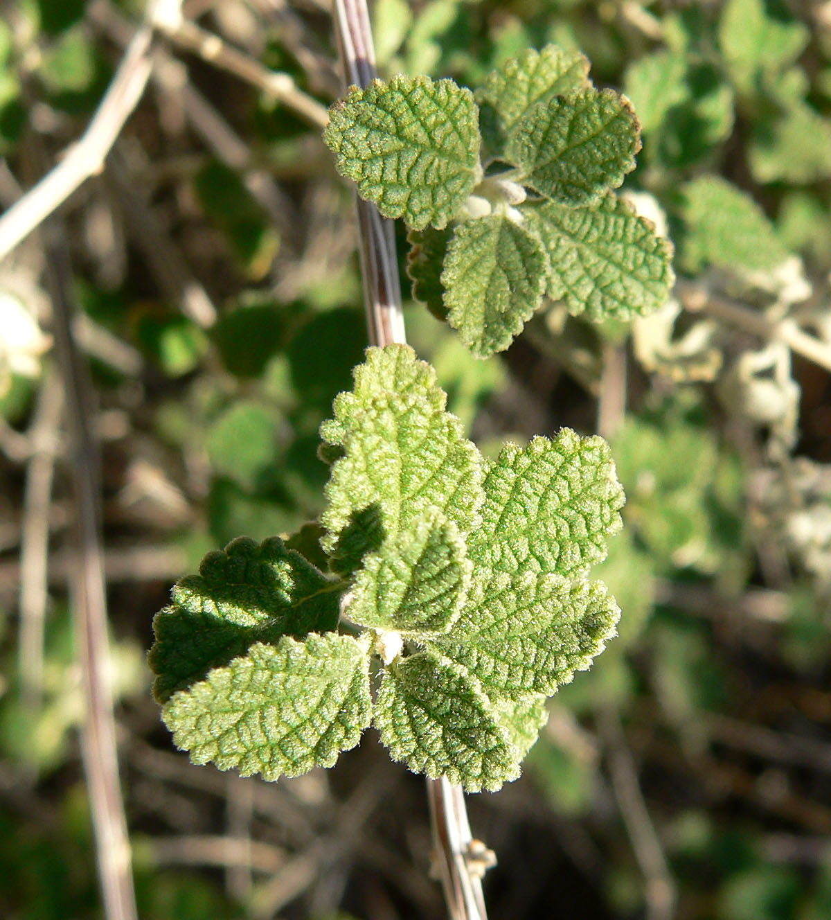 Aloysia wrightii in canyon at foot of Mount Wilson (Arizona), northwestern Arizona